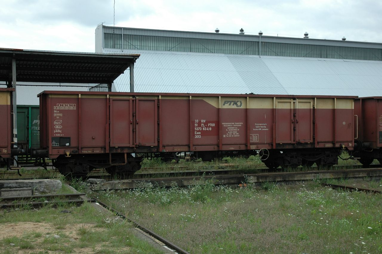 Wagon of the class Eaos No. 33 51 537 3 834-9 of the Polish railway operator PTKiGK Rybnik